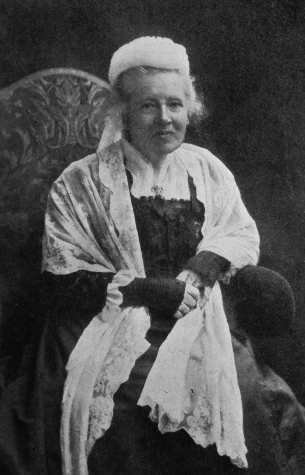 Anderson, Elizabeth Garrett 1836-1917